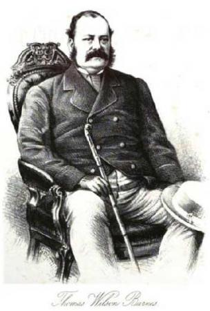 picture of Thomas Wilson Barnes